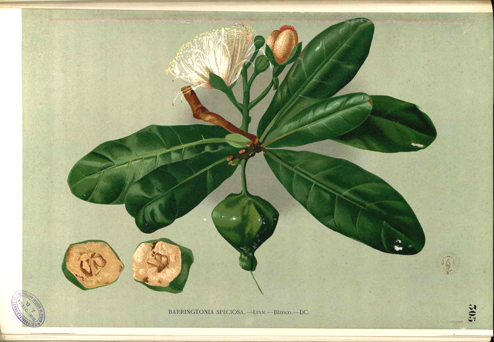 Barringtonia speciosa Plate from book